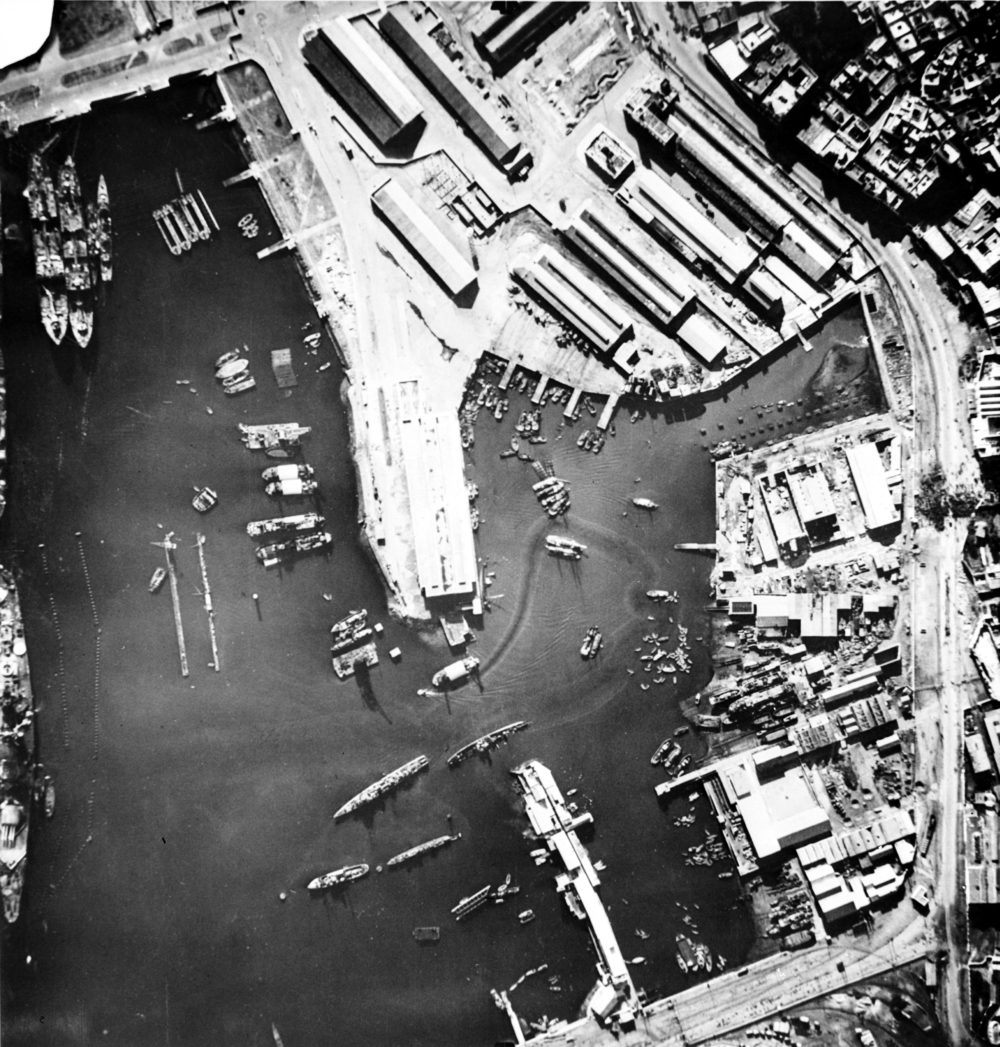 Aerial view of the port of Casablanca, Morocco, at the time of the Allied landings in North Africa. Note the sunken ship in the center of the harbour and the French battleship Jean Bart on the left.